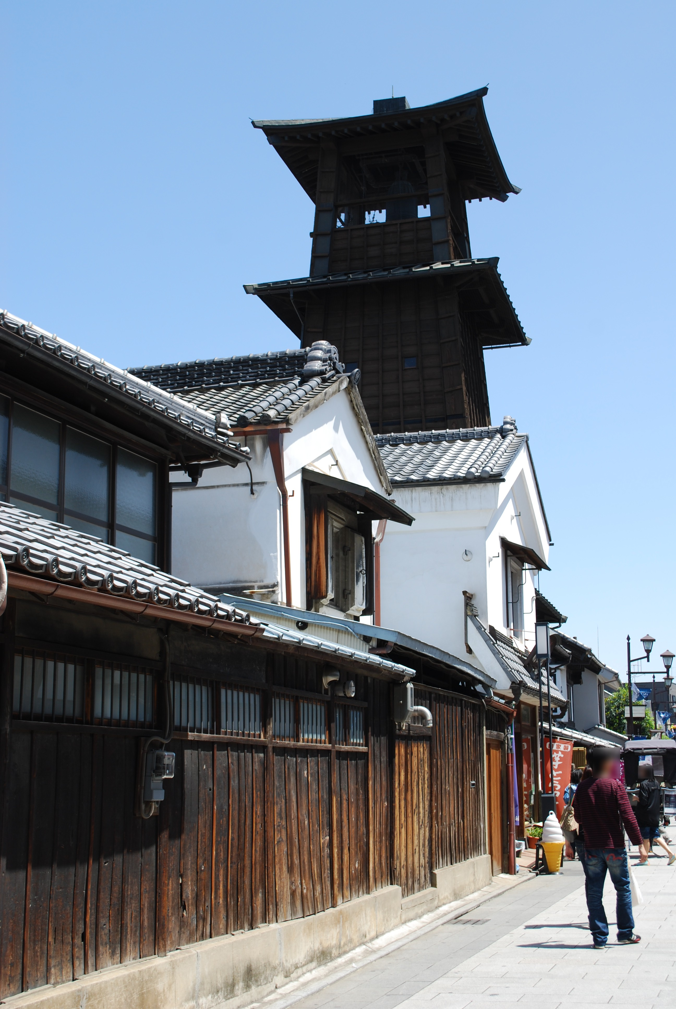 Tbelfry of Kawagoe,Tokinokane,Kawagoe-city,Japan